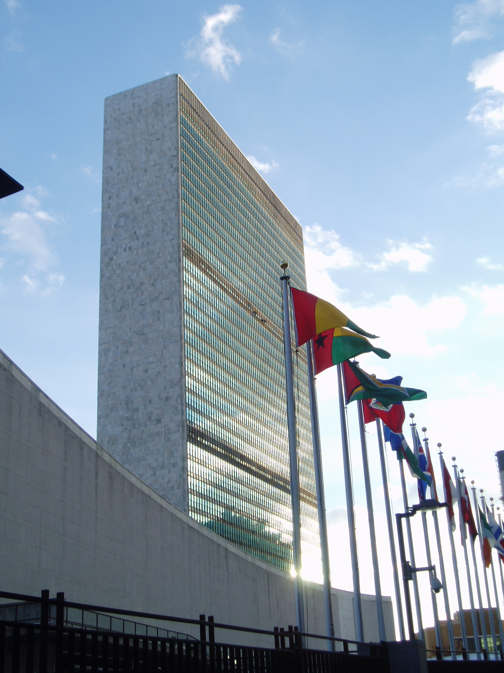 The Headquarters of the United Nations' United Nations Secretariat Building in Manhattan, New York